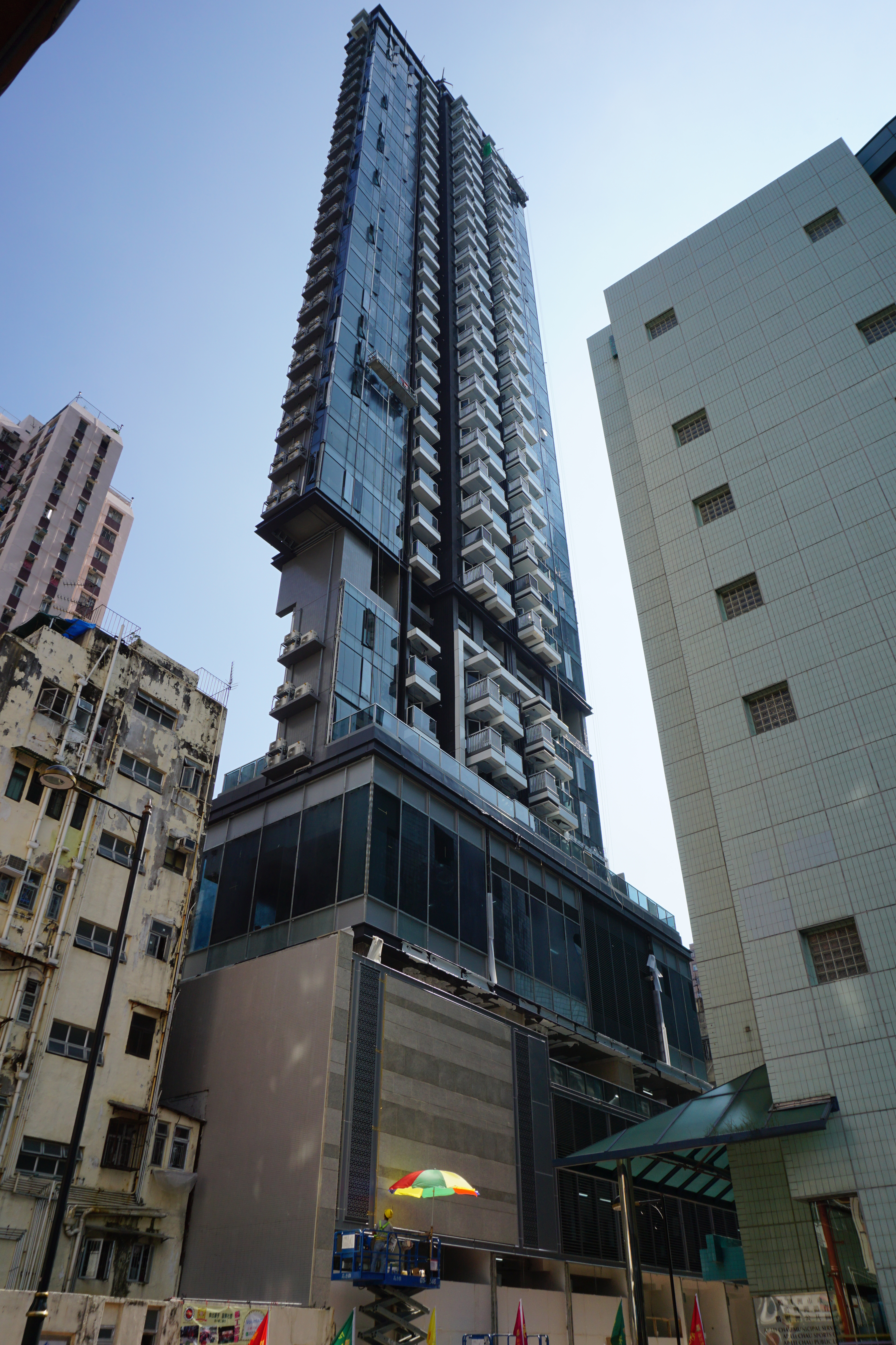 H‧Bonaire in Ap Lei Chau, Hong Kong.